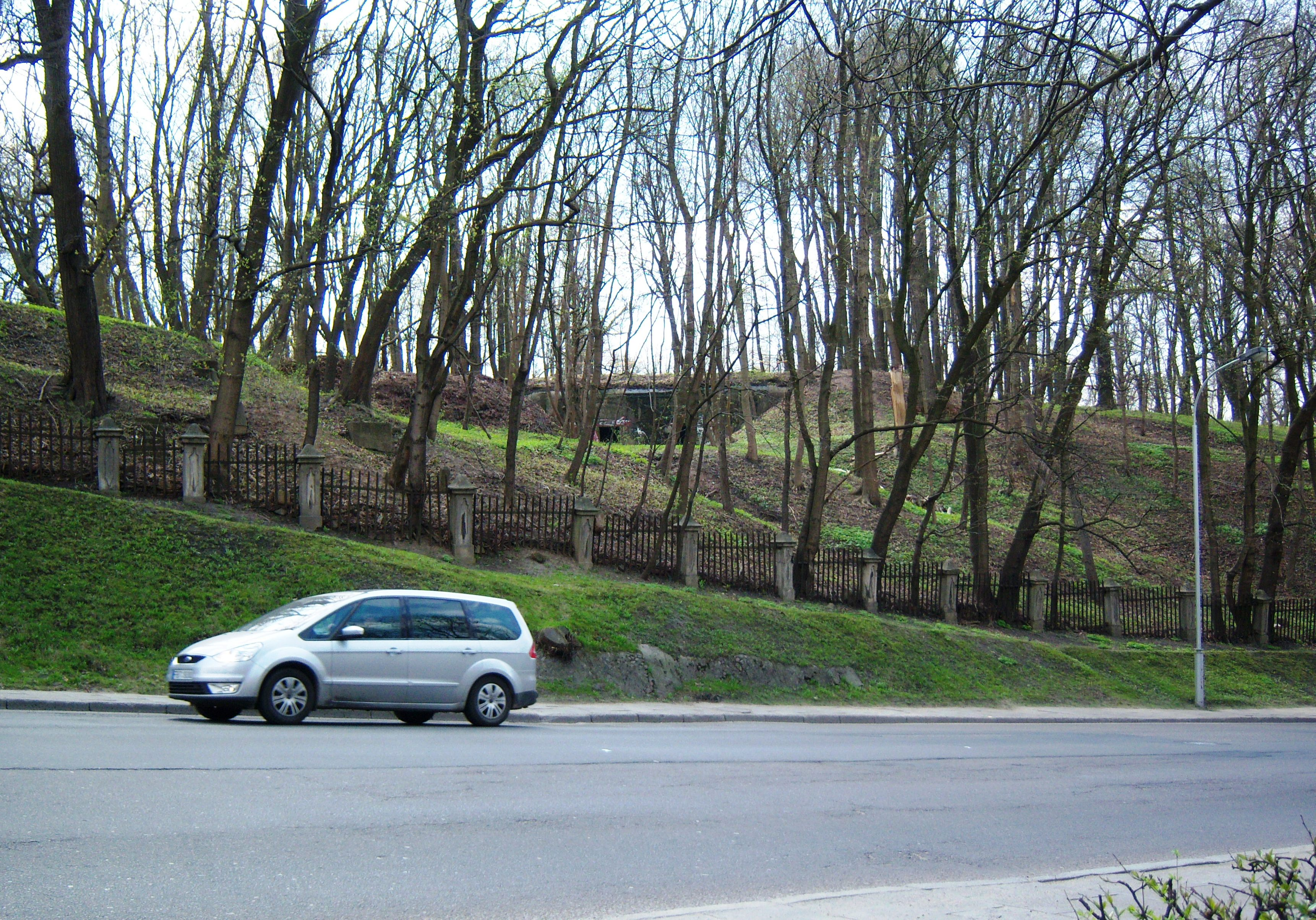 Kaunas fortress commandant's blindage, Lithuania